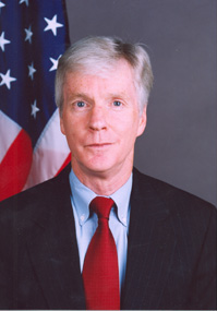 Ryan C. Crocker, U.S. Ambassador to Pakistan. Source: United States Department of State: Biography of Ryan C. Crocker. Crocker, Ryan C